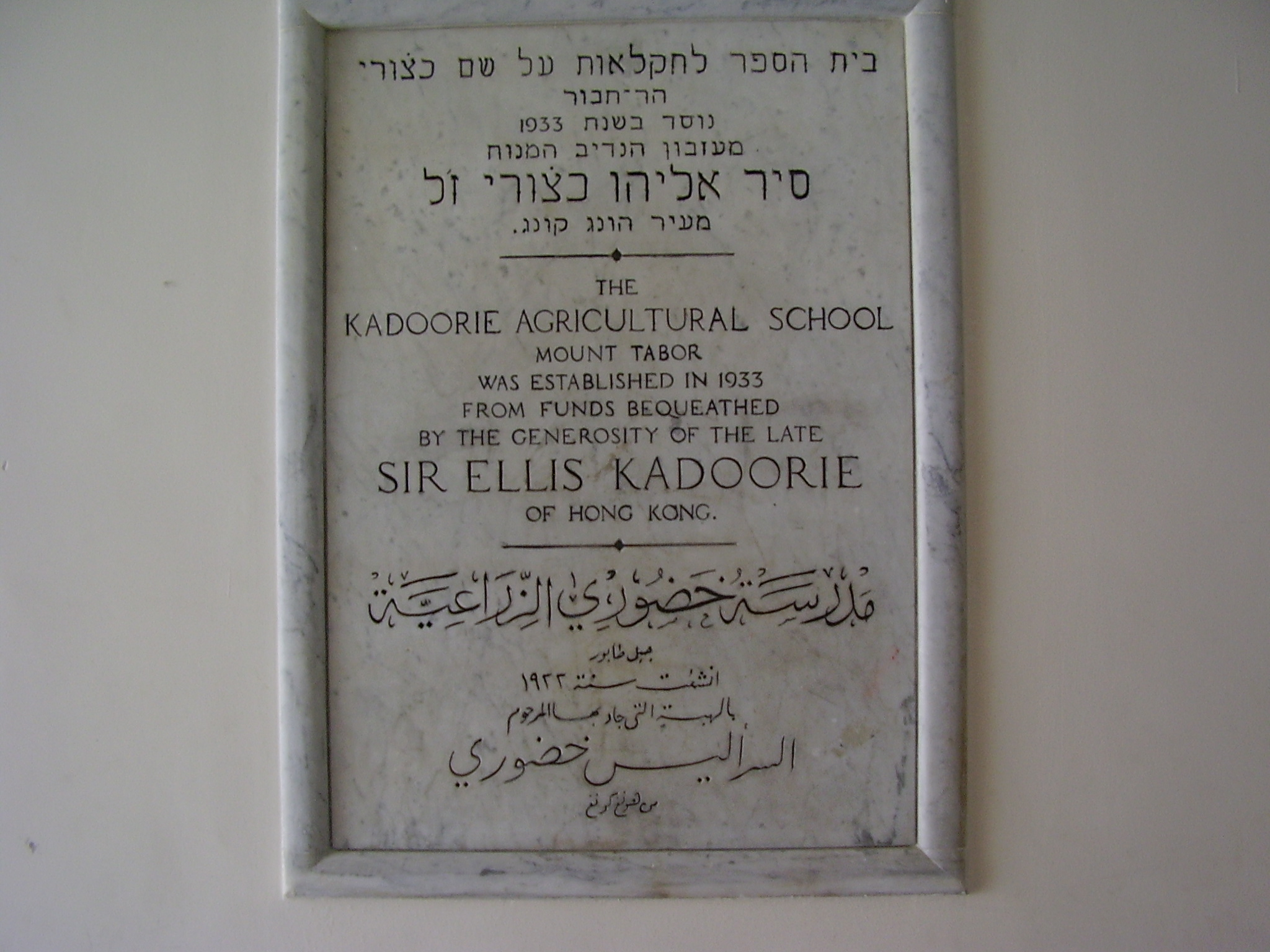 kaduri school in lower galilee